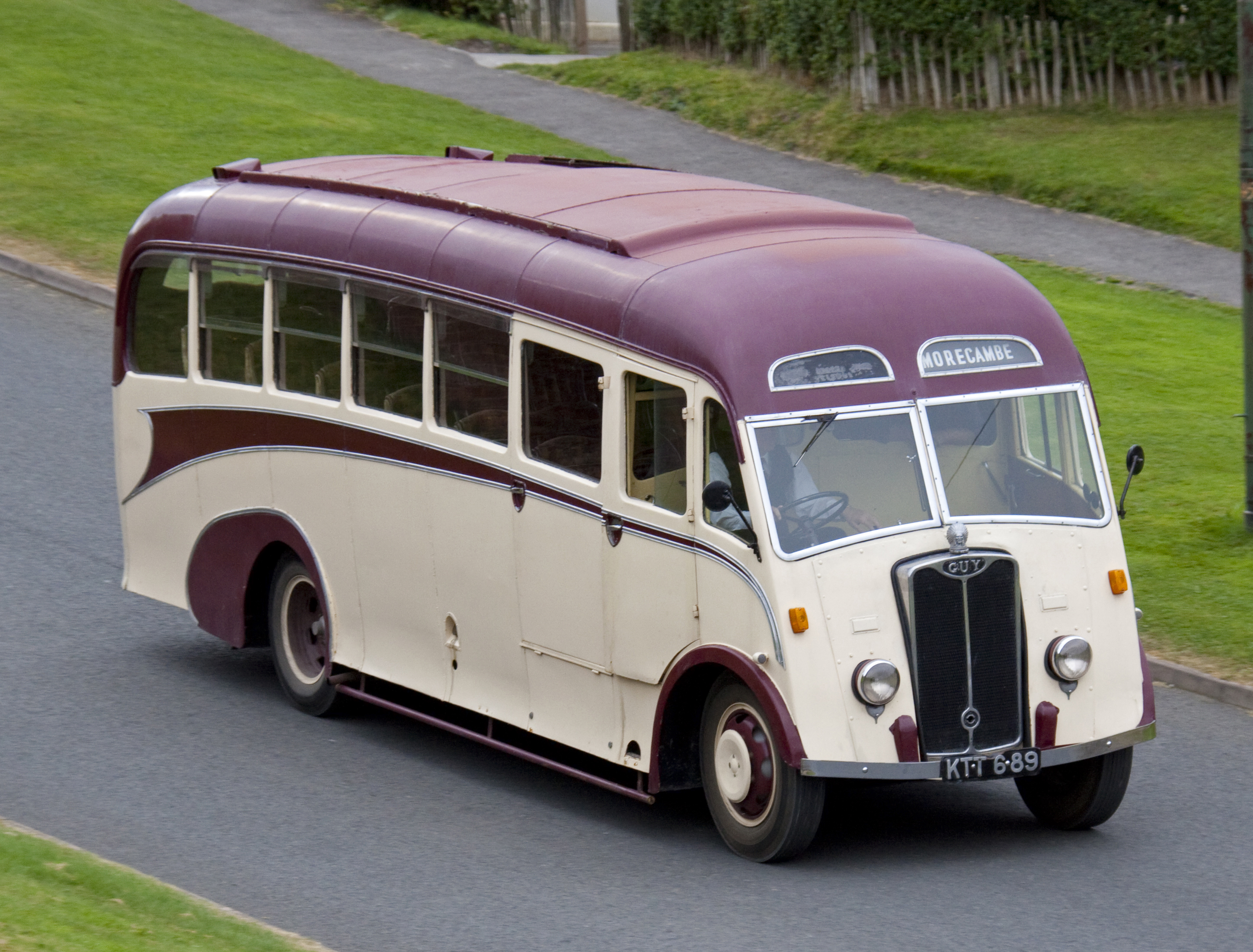 A 1948 Guy Vixen coach with Wadham Stringer bodywork (reg. KTT 689), pictured working as the shuttle bus for the Black Country Living Museum in Dudley, West Midlands.